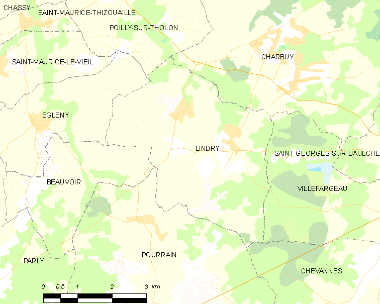 Map of French municipality Lindry